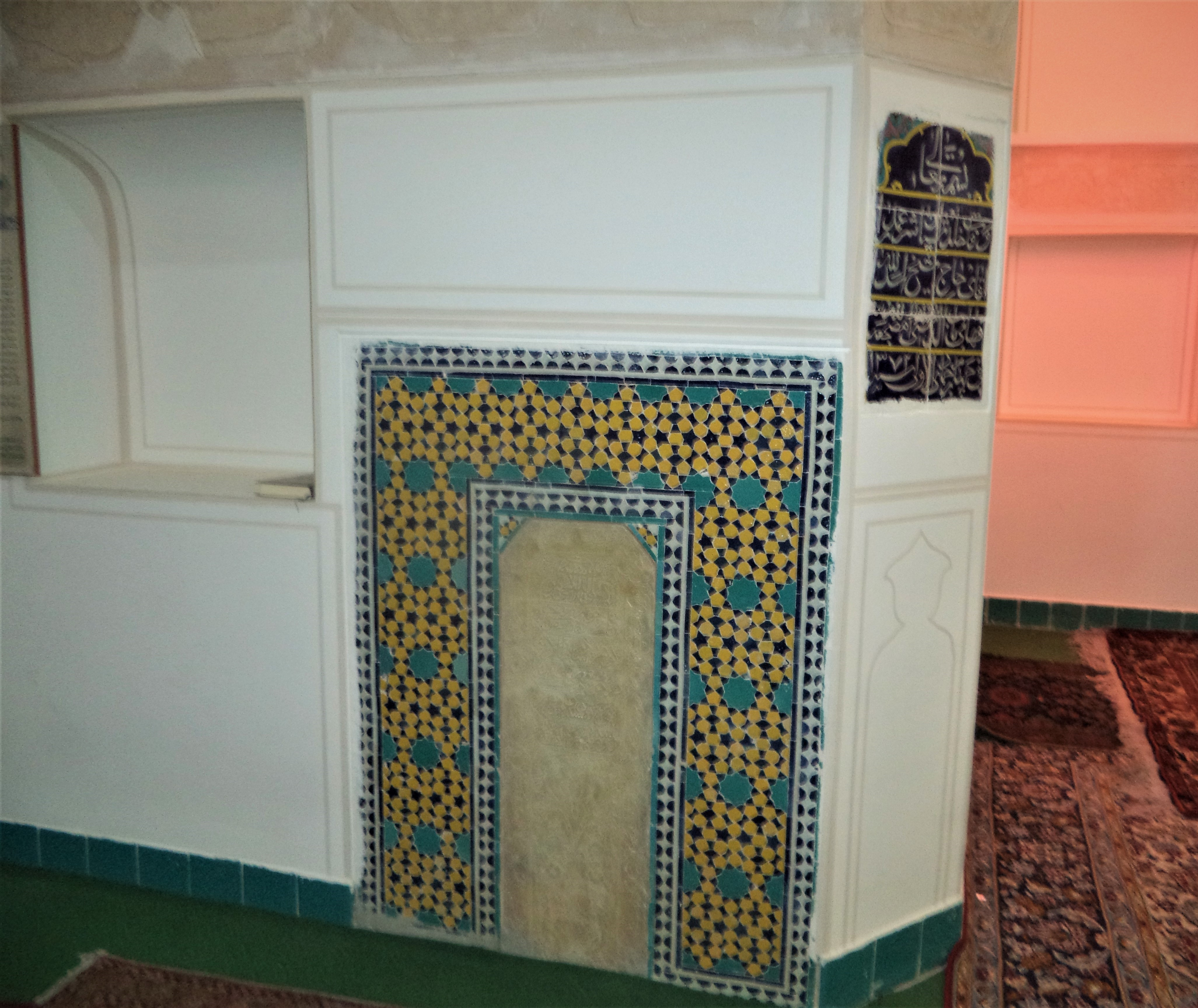 Gravestone of Gohar Soltan Beigom (? -1842/09/09) – (? -1258 A.H.), wife of Mirza Abdollah Sheikholeslam Placed Over the Grave Location of Gravesite: Agha Hossein Khansari mausoleum, Takht-e Foulad Cemetery, Isfahan